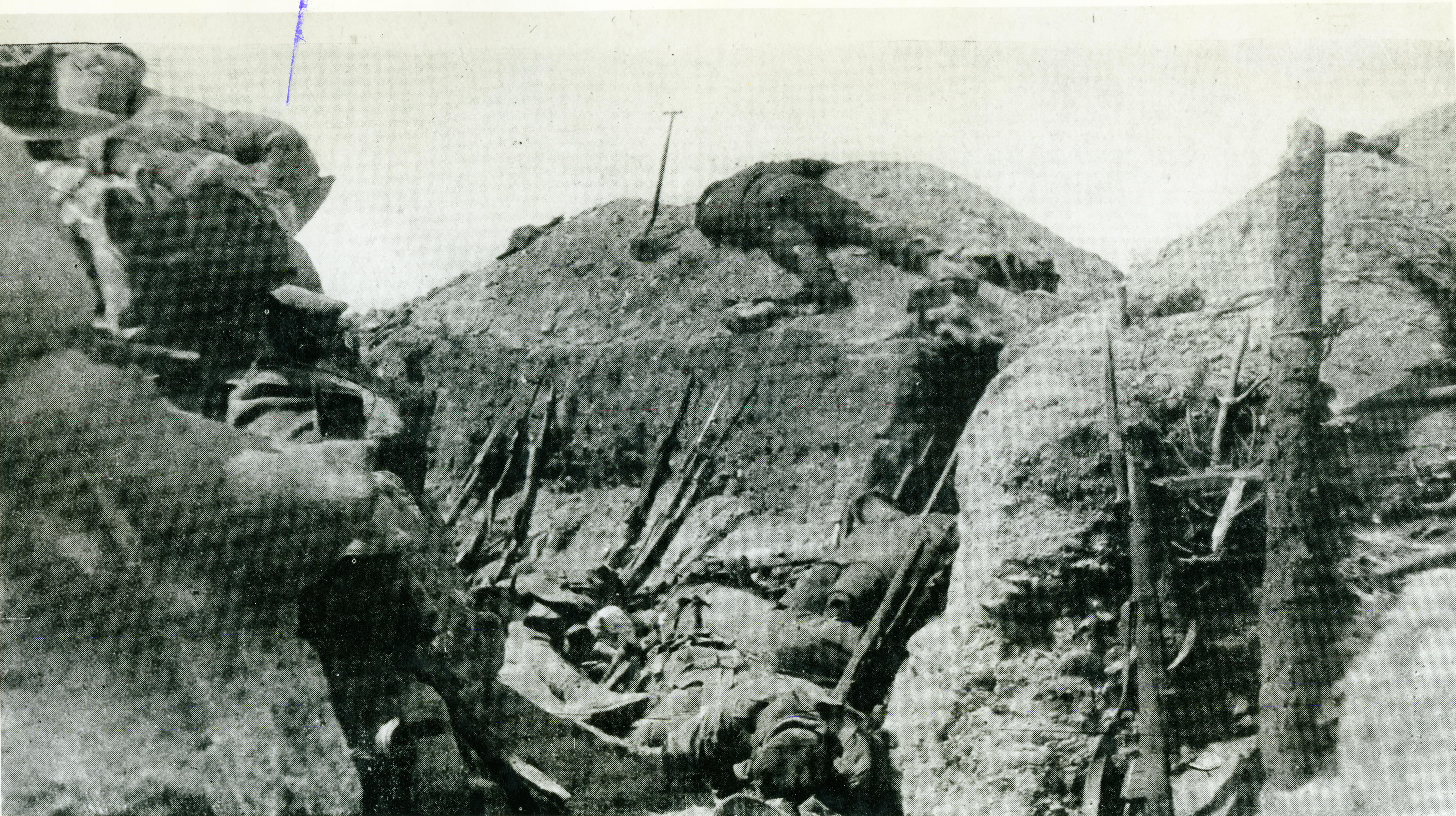 By the end of July the Allies began looking at alternative strategies to break the deadlock on the peninsula. Lieutenant-General Birdwood, the ANZAC commander, formulated a plan to break through the Turkish lines at Anzac and seize the heights of the Sari Bair range. Lieutenant-General Hamilton had given up on breaking out at Helles and seized upon Birdwood’s idea. He expanded the plan to include landing two British divisions behind the Turkish front line at Suvla Bay, 8km north of Anzac Cove, intended to occur simultaneously with attacks from the Anzac sector and a diversionary attack from Cape Helles. The August Offensive opened on 6 August 1915 with an Australian attack on Lone Pine, at the southern end of the Anzac sector at Gallipoli. Four days of savage fighting secured the area for the Australians but at a heavy price. Of the Australian force that launched the attack at Lone Pine, almost half became casualties. Australian losses during the battle amounted to 2,277 men killed or wounded, out of the total 4,600 men committed to the fighting over the course of the battle. These figures represent some of the highest casualties of the campaign. Turkish casualties were estimated to be somewhere between 5000-7000. Lone Pine served as a diversionary attack to draw the Turks’ attention away from the main offensive which the New Zealanders and other Allies were to launch the following day against the three key high points of the Sari Bair range, namely Chunuk Bair, Hill Q and Hill 971. Archives Reference: AAME 8106, 11/17/19 Material from Archives New Zealand